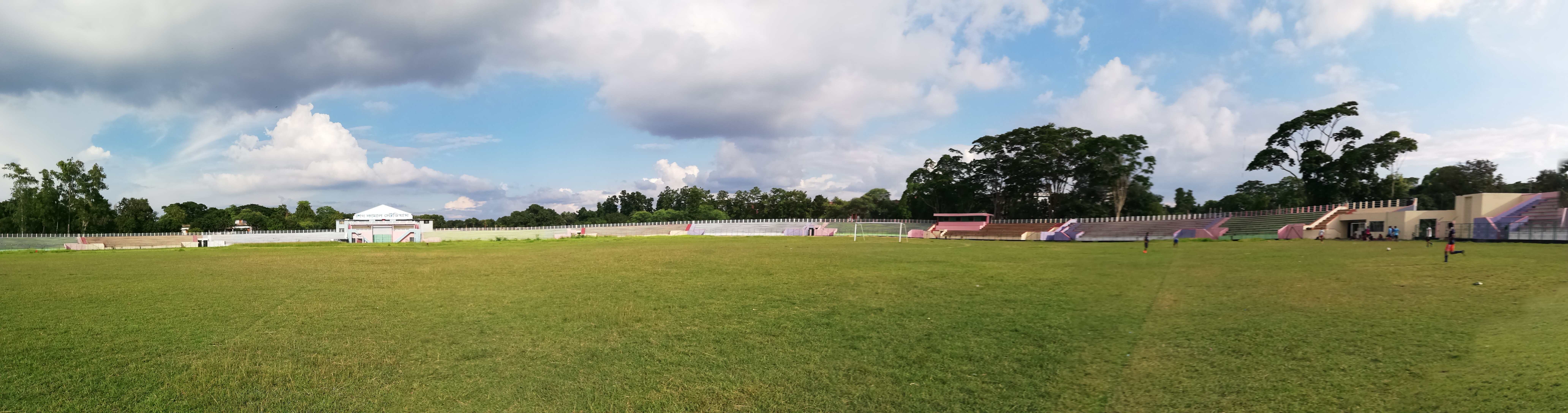 Panoramic view of Rajshahi Stadium.